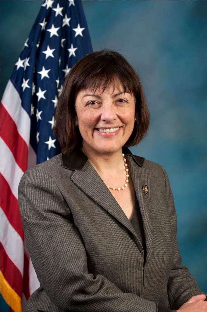 Official portrait of Congresswoman Suzan DelBene (D-WA).